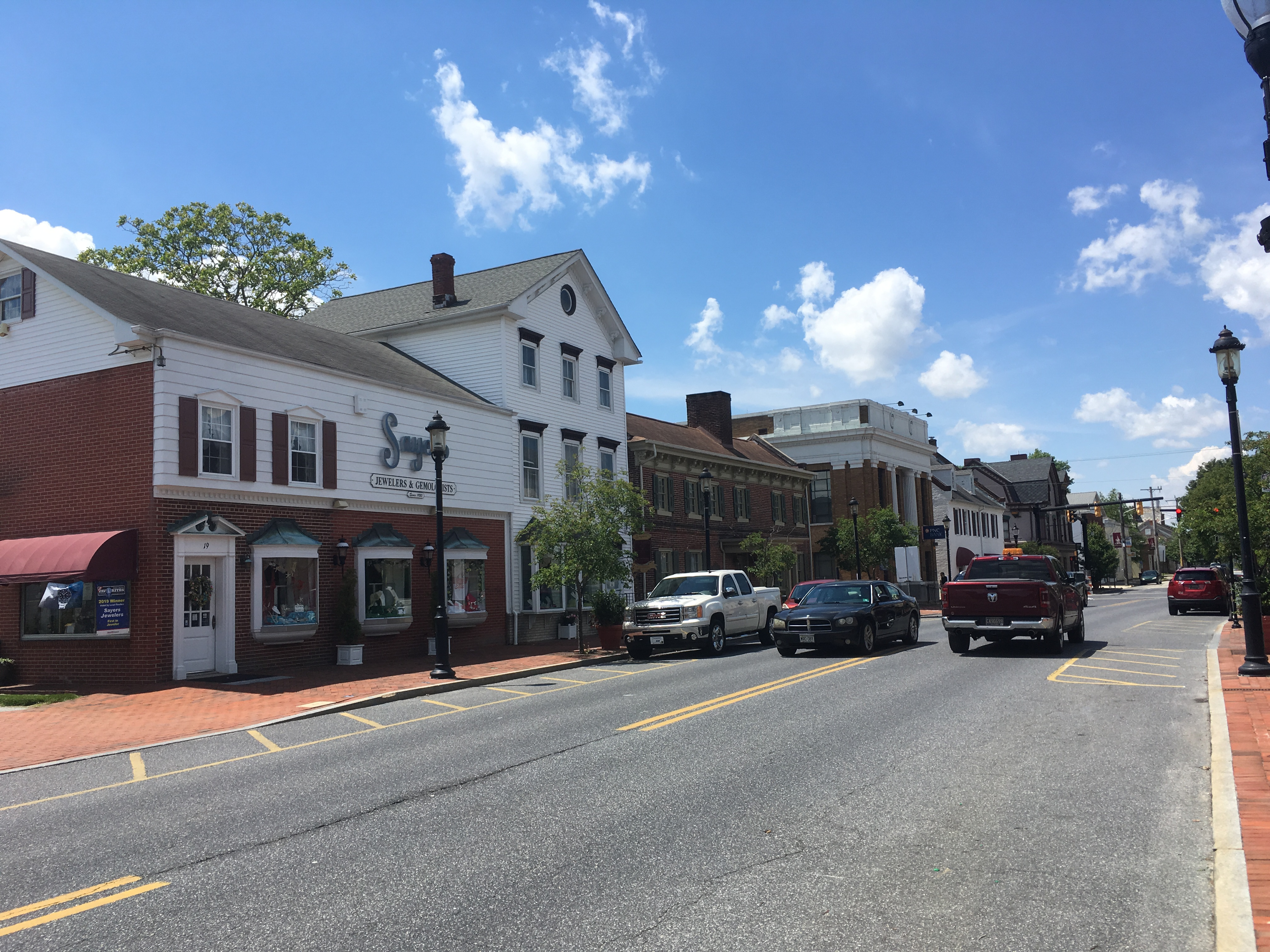 Northbound Main Street approaching the intersection with Commerce Street in Smyrna, Delaware